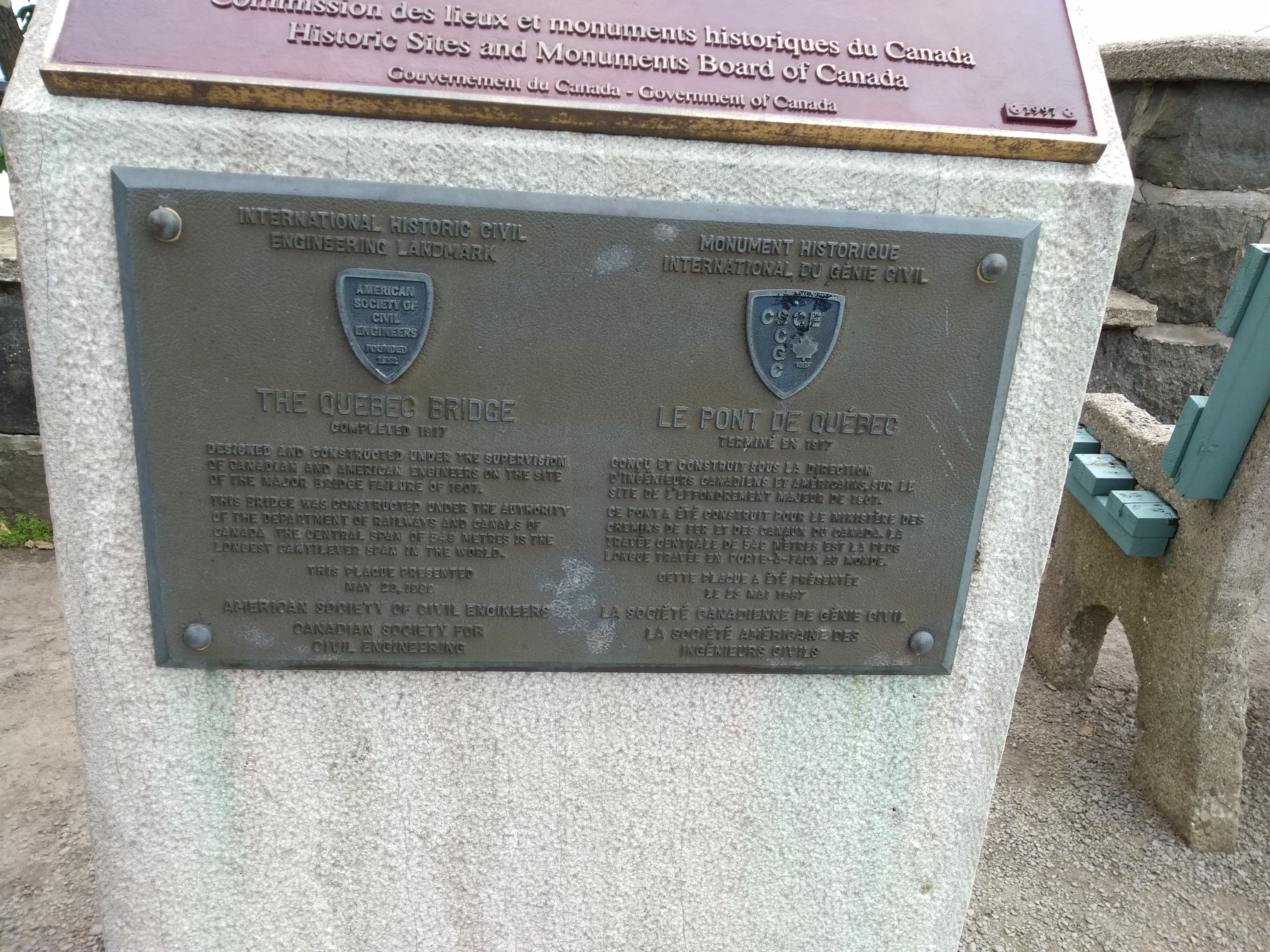 Quebec bridge plaque designated historic civil engineering landmarks